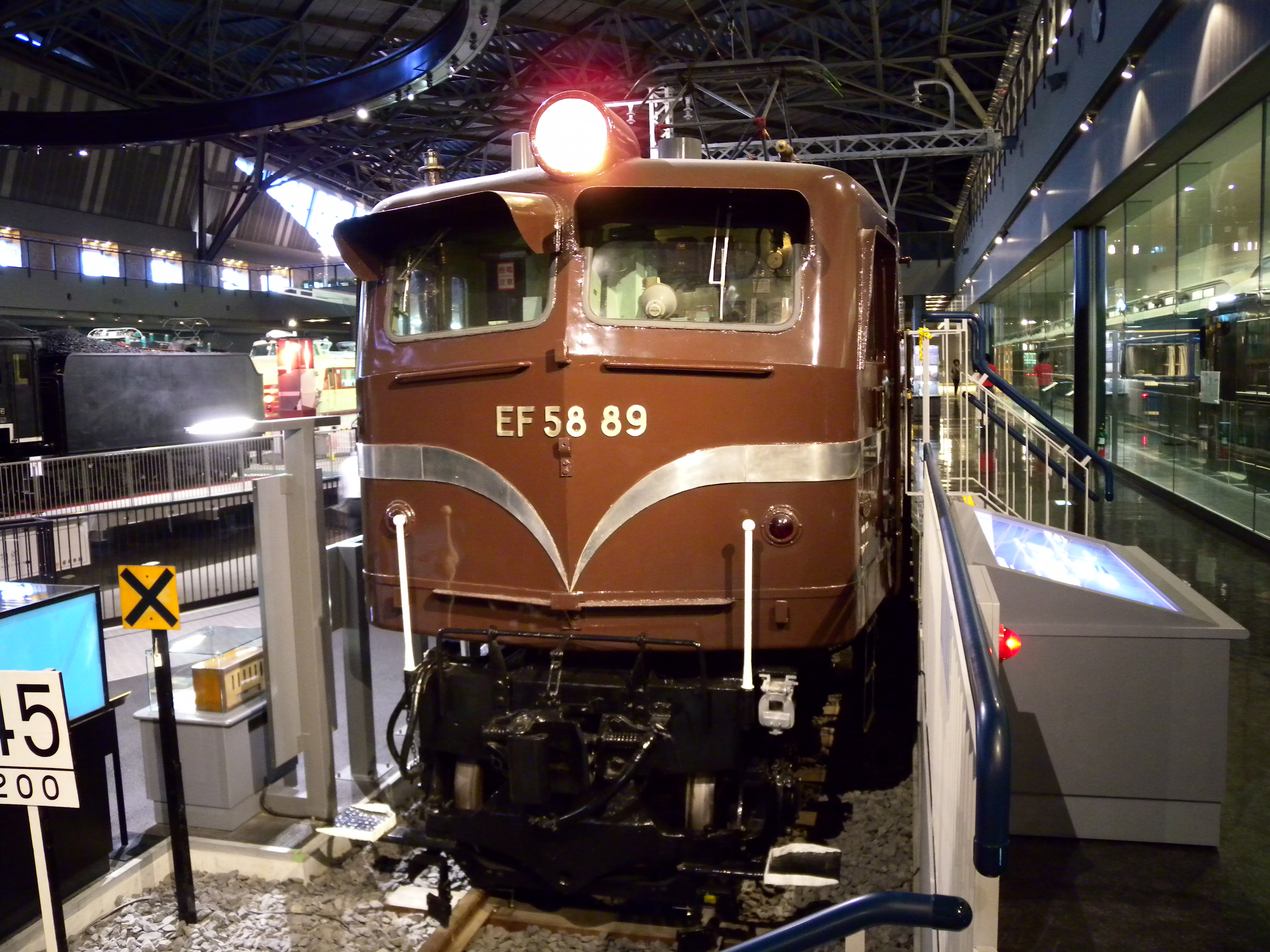 JNR EF58 89 at saitama railway museum